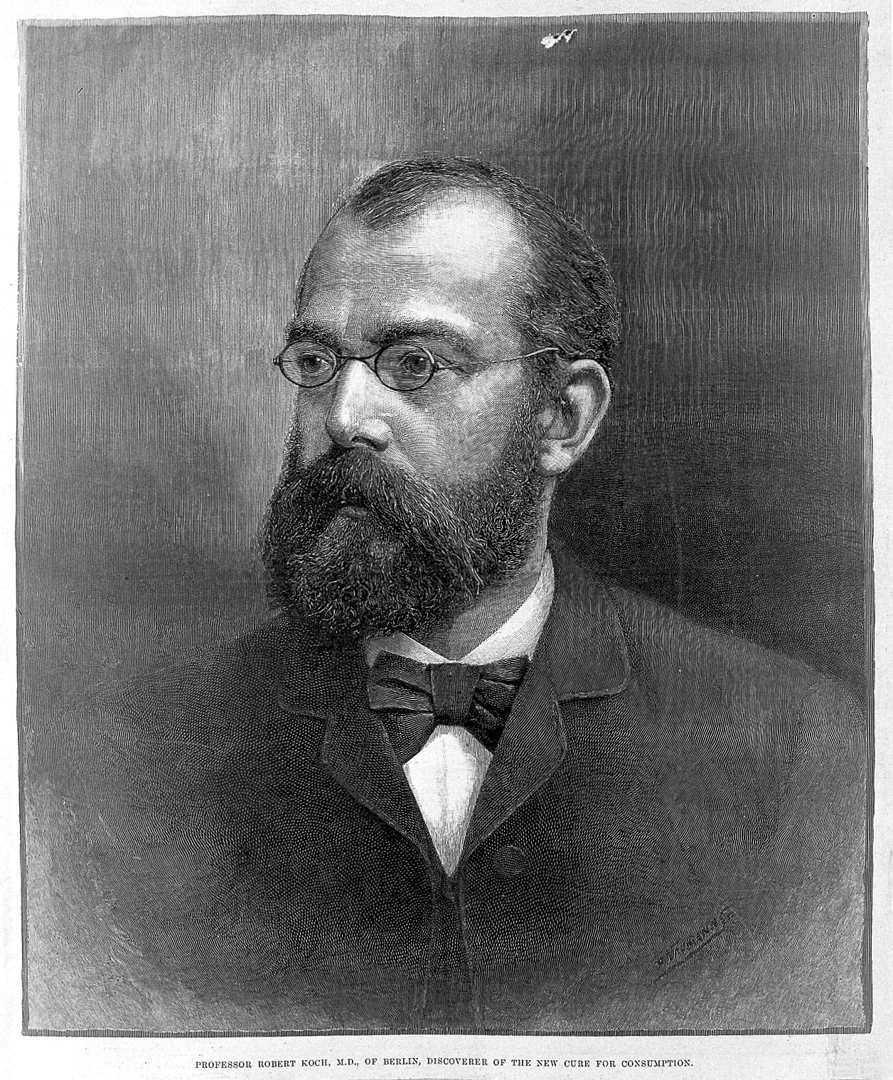 Portrait of Robert Herman Koch [1843 - 1910], bacteriologist Iconographic Collections Keywords: Robert Koch; P. Naumann